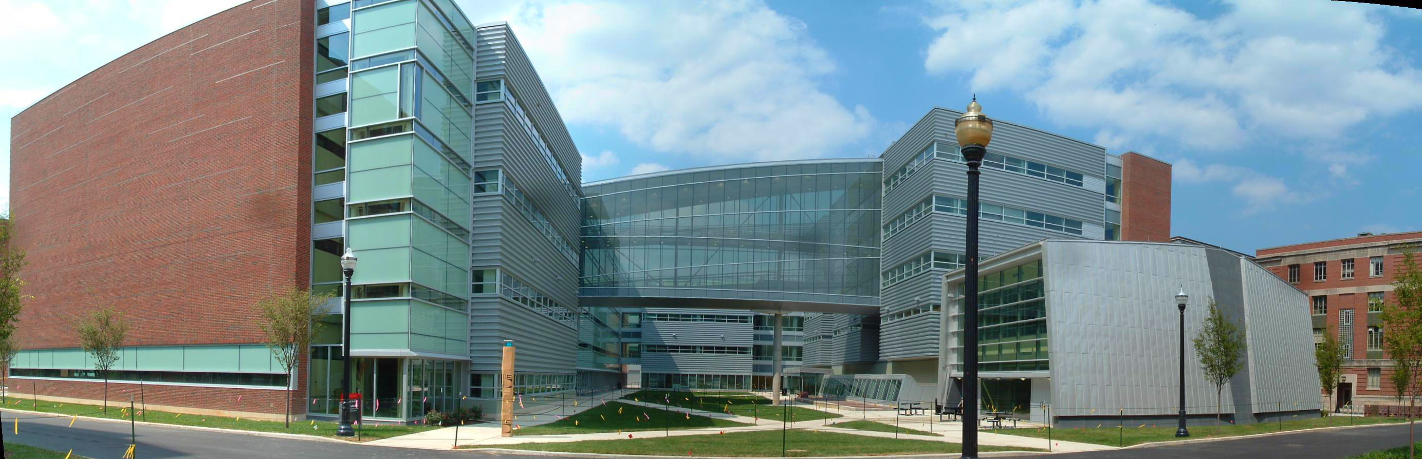 Scott Laboratory at The Ohio State University. Self made photo.